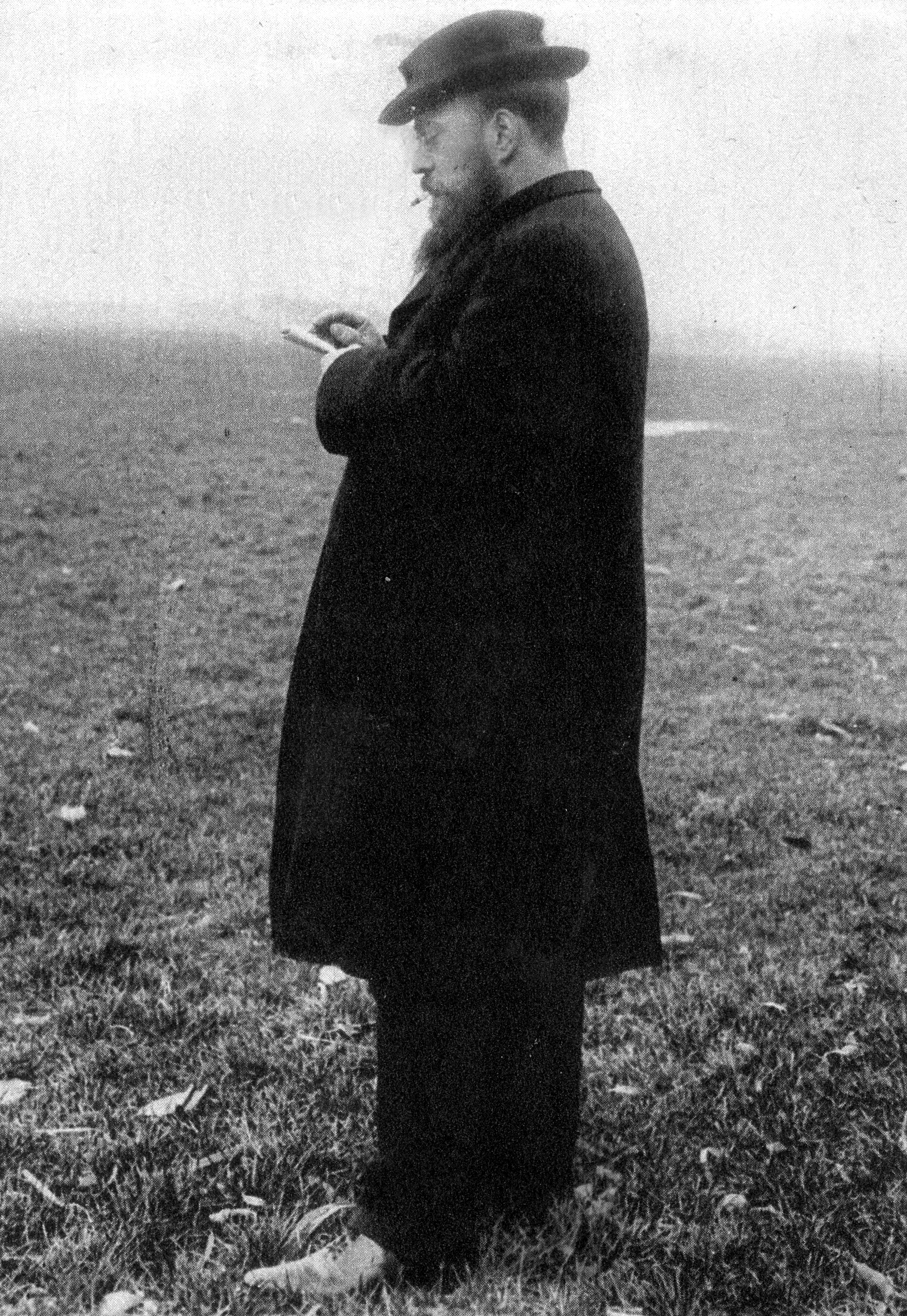 Dutch journalist and novelist Marie Joseph Brusse (1873-1941). Photograph probably ca. 1920-1930 (?)